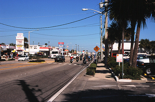 Daytona Beach at Bike Week 07